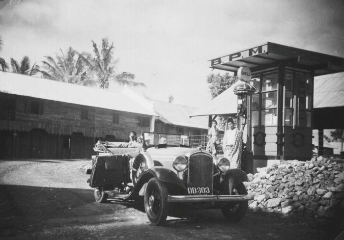 Celebes has a net of many pathways and trails, which are predominantly used by pedestrians. Additionally also animals are used for the transport of persons and goods. Especially horses did play a major part in this. One distinguishes a special breed of horse, the Makassaar-horse. It ows its existence in the first place to Zuidwest-Celebes (Bone, Goa), where the horses were needed for deer-hunting. Horses (including "service-horses") are used to pull carriages and are used as pack animals. And then came the car. The photo shows the classic combination of a car and a fuel-pump. The pump is of the BPM (Bataafsche Petroleum Maatschappij), a subsidiary of Royal Oil/Shell, which exploits (runs) many Oilwells in India (Dutch East-India). The cars are imported, but it is very likely that the rubber for the tires came from India (Dutch East-India). The car is closely connected to the upcoming modern tourism in the archipelago, because with the introduction of the car, most of the roads had been improved. That made it easier for Europeans to enjoy the view of the Toradja's. (P. Boomgaard, 2001). Car near a fuel-pump (filling-station) of the BPM / Shell in Kalosi